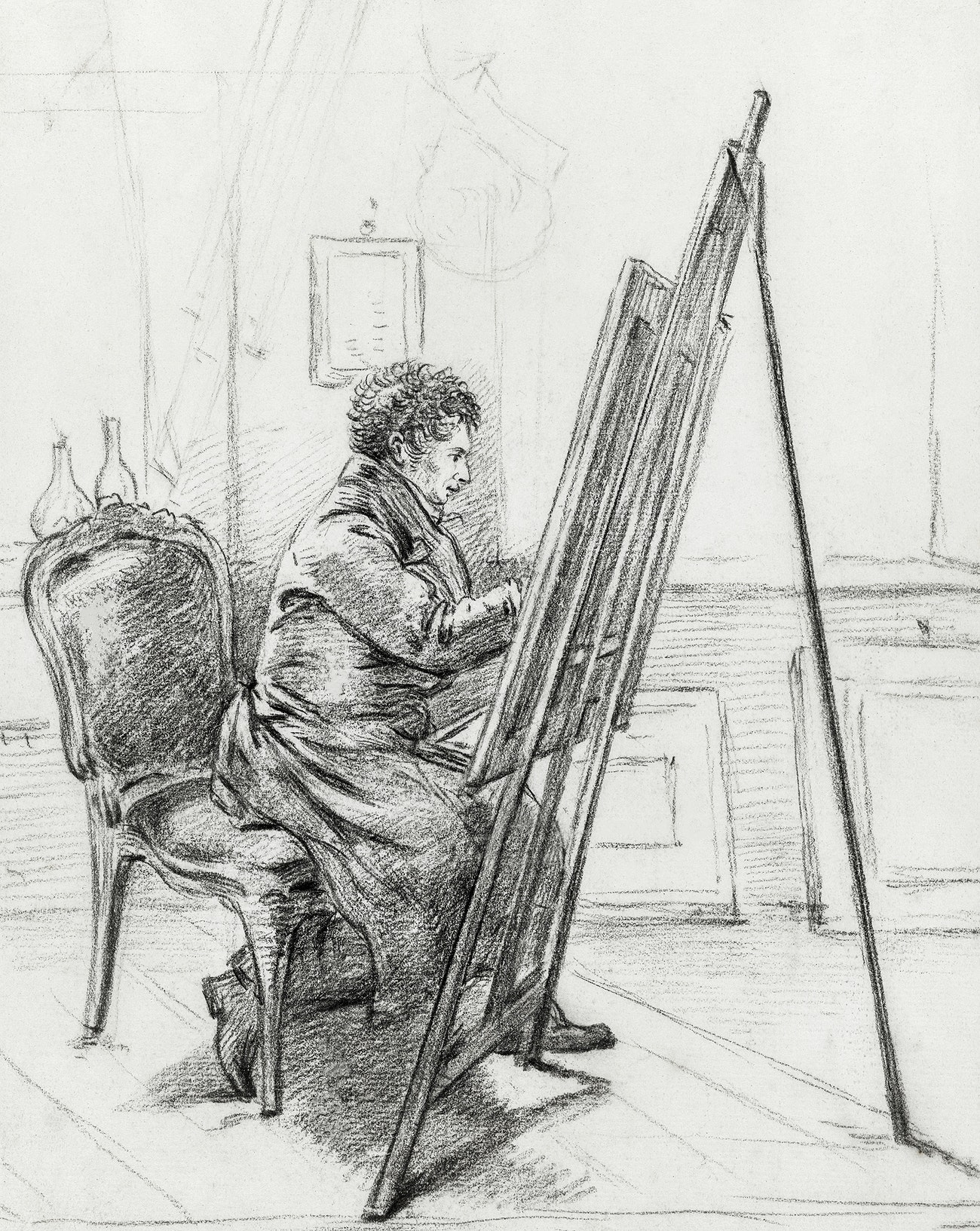 Portret van Gerrit Jan Michaelis in zijn atelier